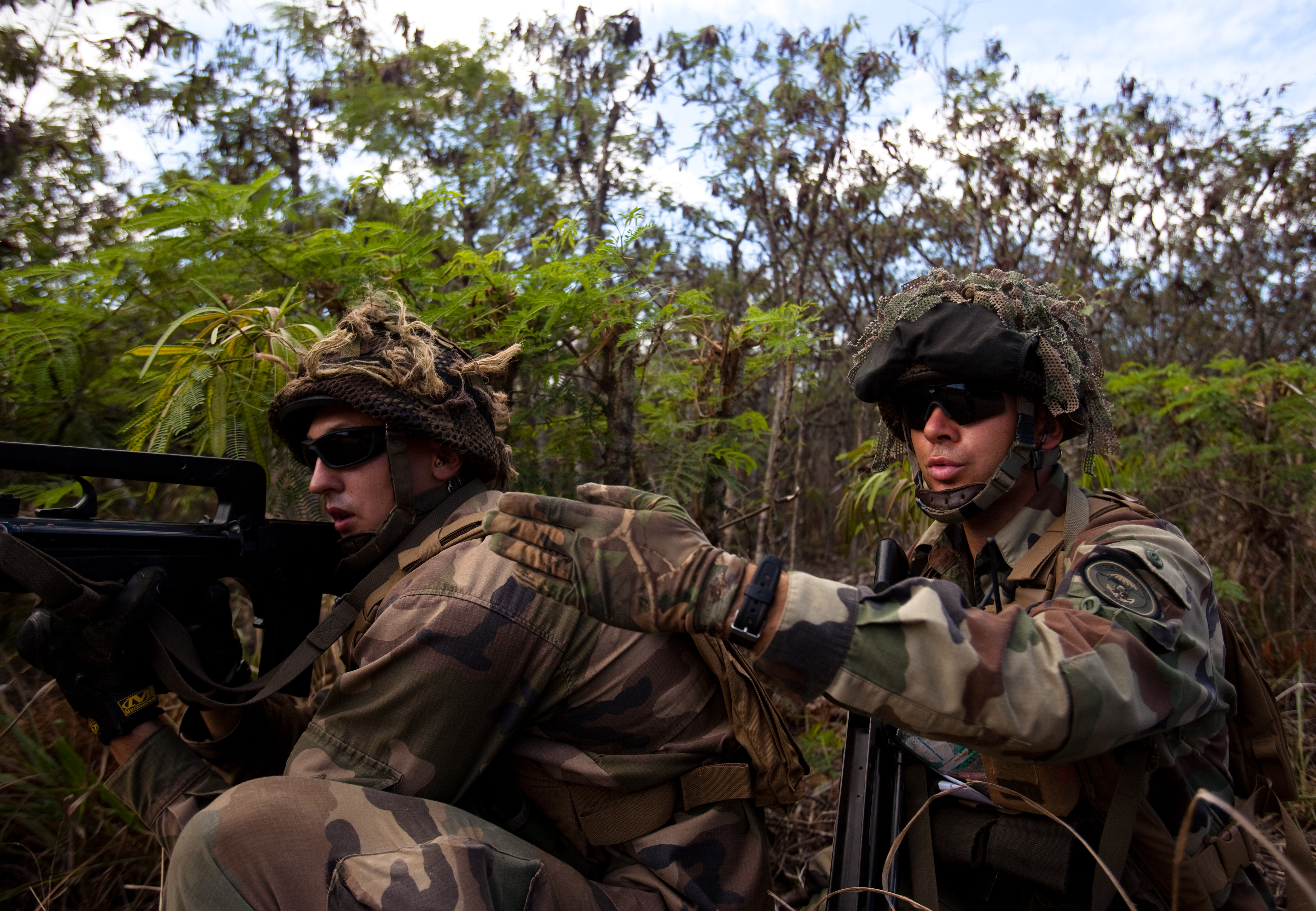 French marines with the 8th Marine Airborne Light Infantry Regiment scout ahead of a patrol Oct. 23, 2012, at Marine Corps Training Area Bellows, Hawaii, during exercise Amercal 2012. Amercal is a platoon-level combat arms combined exchange between the U.S. Marines and the French Armed Forces with the purpose of maintaining a high level of interoperability, enhancing military-to-military relations and improving mutual combat capabilities. (DoD photo by Cpl. James Sauter, U.S. Marine Corps/Released)